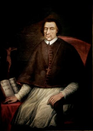 J. A. de Robiano was the 11th bishop of the Roman Catholic Diocese of Roermond